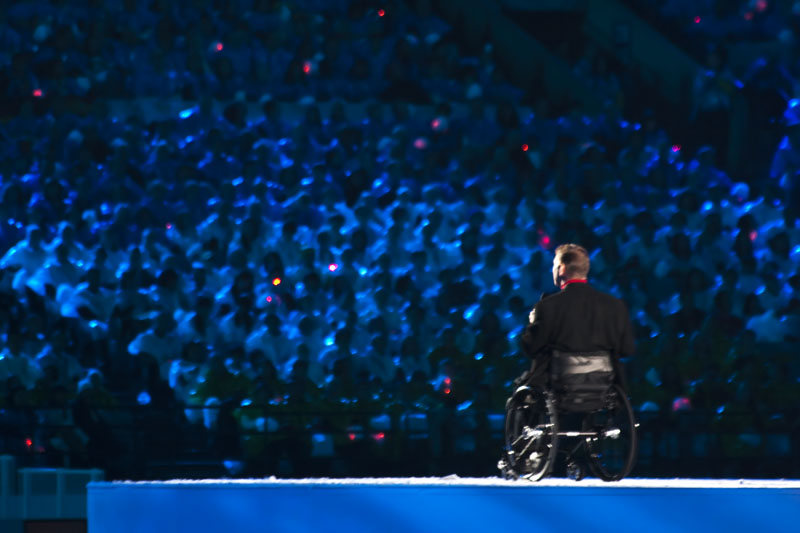 Rick Hansen tells the 60,000-strong crowd at BC Place that he had dreams of going to the Olympics as a child, but he thought those dreams were dead when he had his accident. Opening ceremony, 2010 Paralympics.